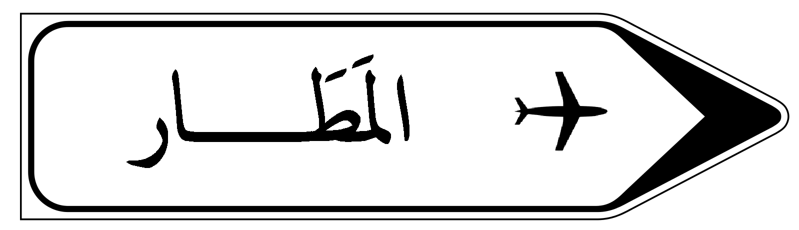 1598px - Arabic Airport Symbol Sign